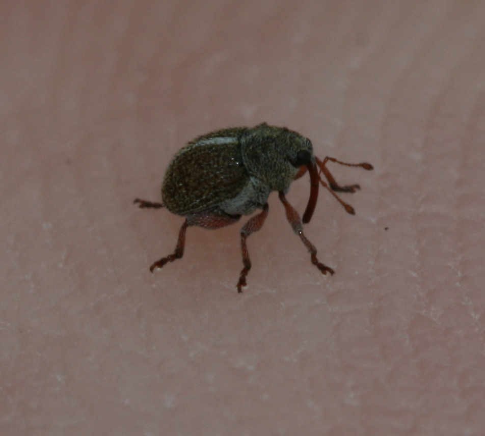 Fala, Midlothian, Scotland